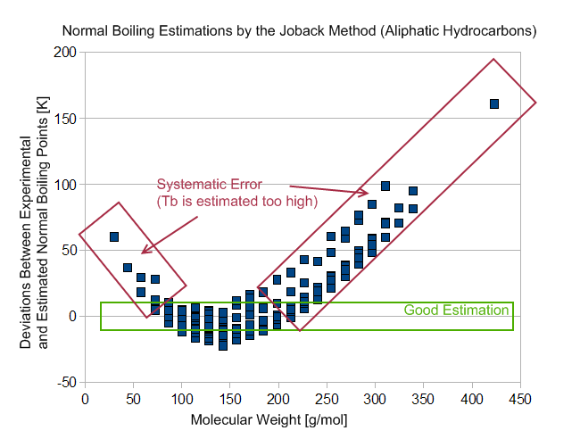 Diagram shows the deviations between predicted normal boiling points (Joback method) and experimental data taken from the Dortmund Data Bank. English Descriptions.